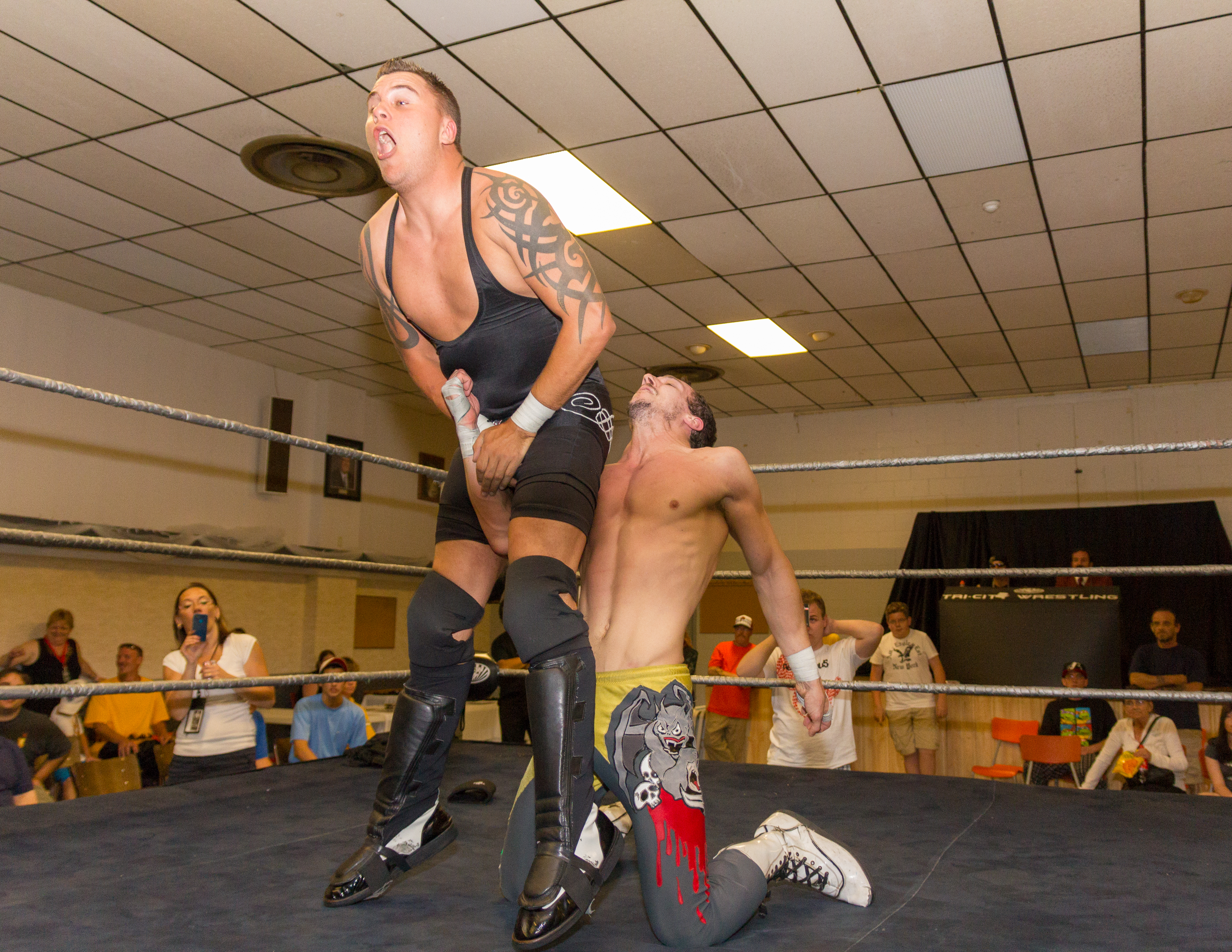 Anthony Darko (kneeling) delivering a low blow to K.C. Andrews at a TCW show in Kitchener, ON